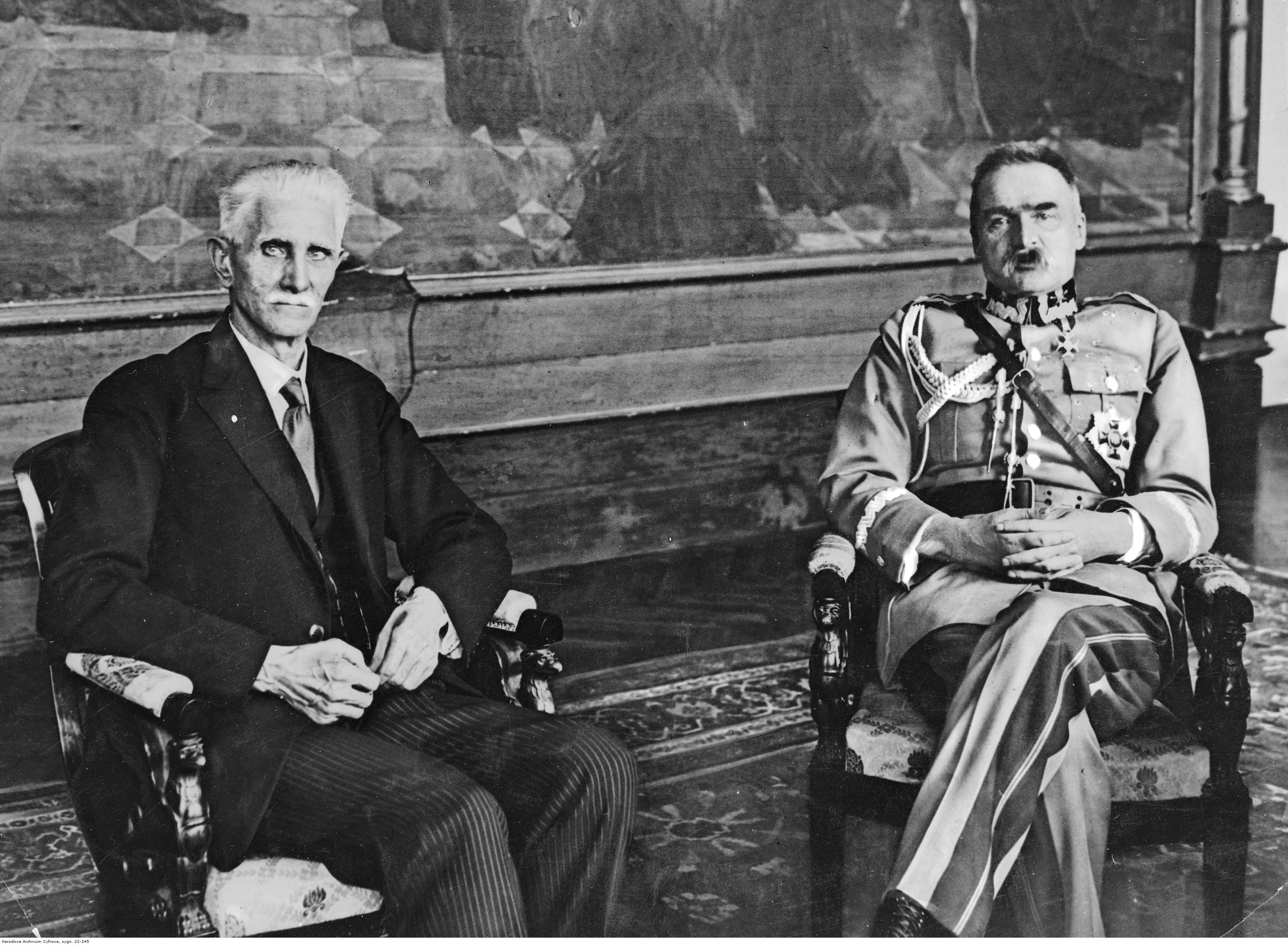 Ignacy Daszyński (1866-1936) and Józef Piłsudski in Polish Sejm 1928